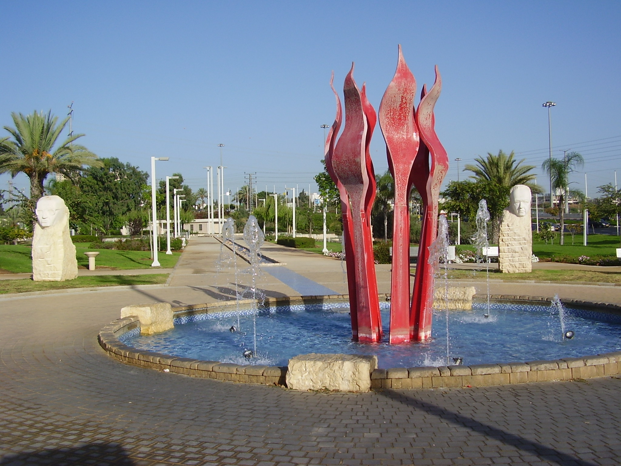 leaders park in rishon lezion